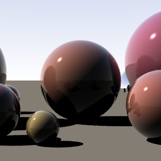 A low-res version of Image:Recursive raytrace of a sphere.png, with global illumination, depth-of-field, and area light sources turned off. Notice that all the objects' shadows are sharp; there is no penumbra (this is because the sun as modeled as a directional point light source).